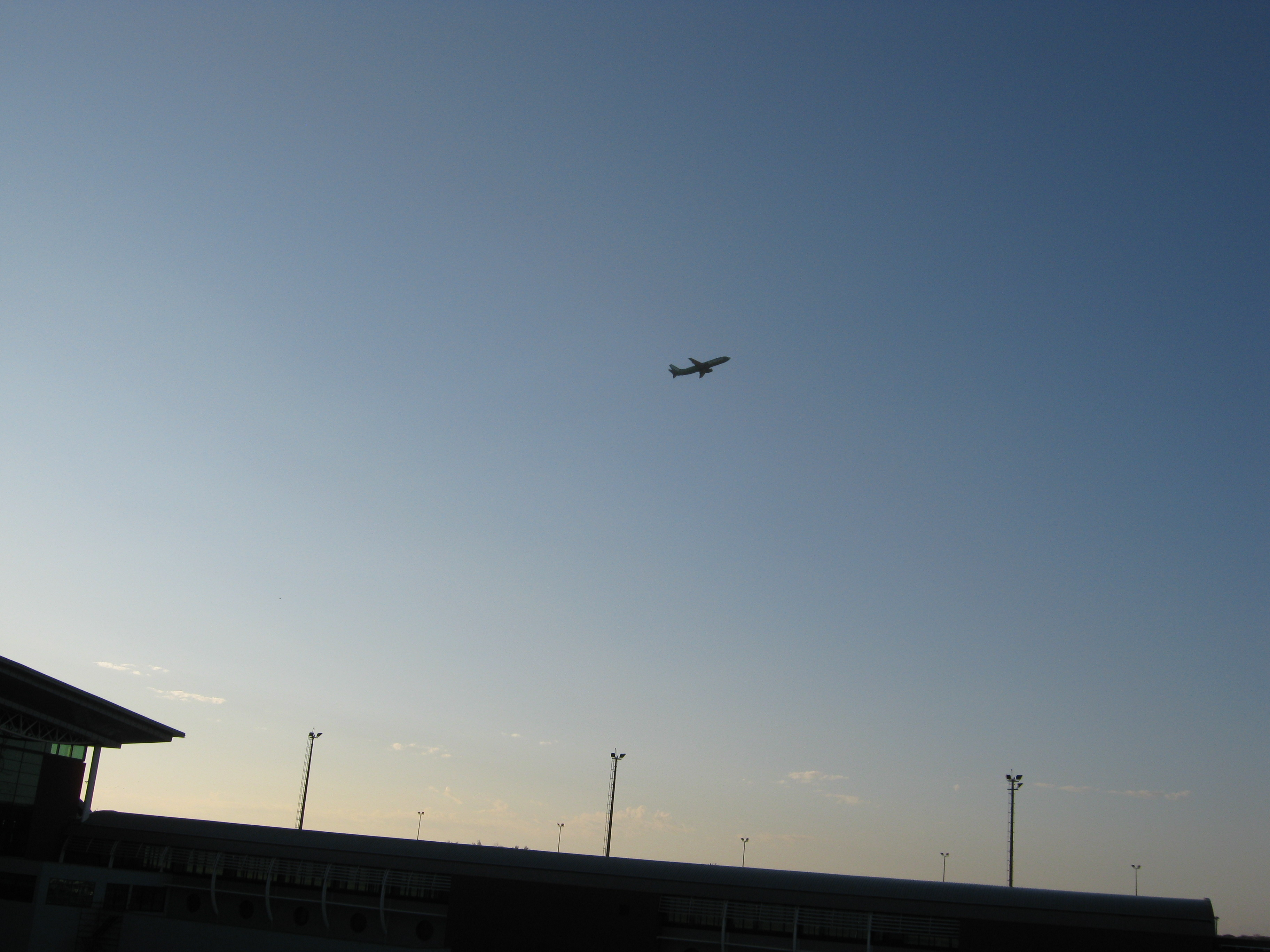 A Boeing 737 departing from King Shaka International Airport